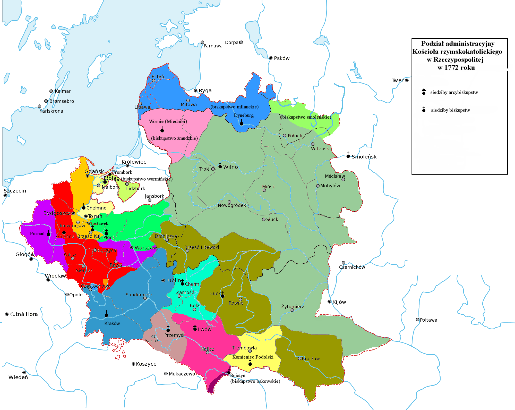 Administrative divisions of the Roman Catholic Church in Polish-Lithuanian Commonwealth in 1772